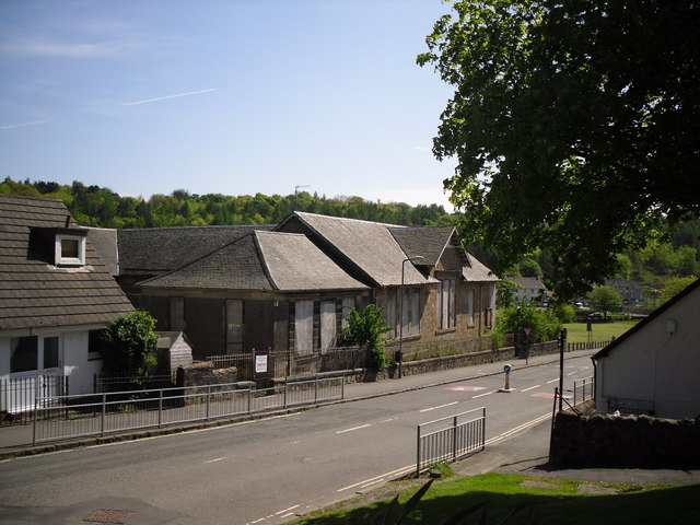 Cumbernauld Village Primary School This building is not in use and I was informed by a local that it will be demolished to make way for new builds (flats or houses).